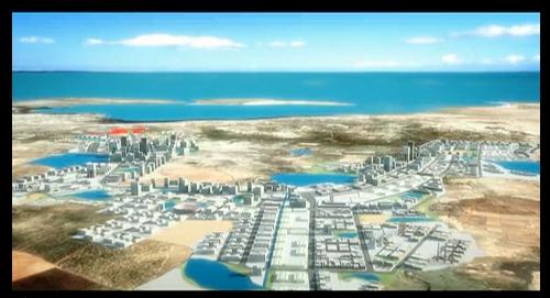 Sricity SEZ Site Plan Aerial View